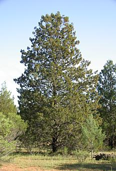 En : Callitris at Hattah-Kulkyne National Park, north-west Victoria, October 2003. Assumed to be Slender Cypress-pine (Callitris preissii, syn. C. gracilis).